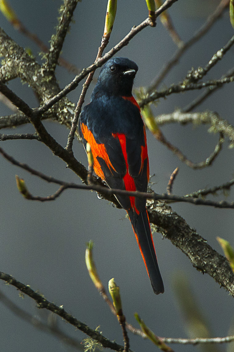 Long-tailed Minivet - Bhutan_S4E9727